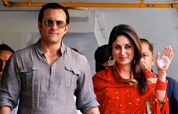 Saif Ali Khan and Kareena Kapoor snapped after their registered marriage